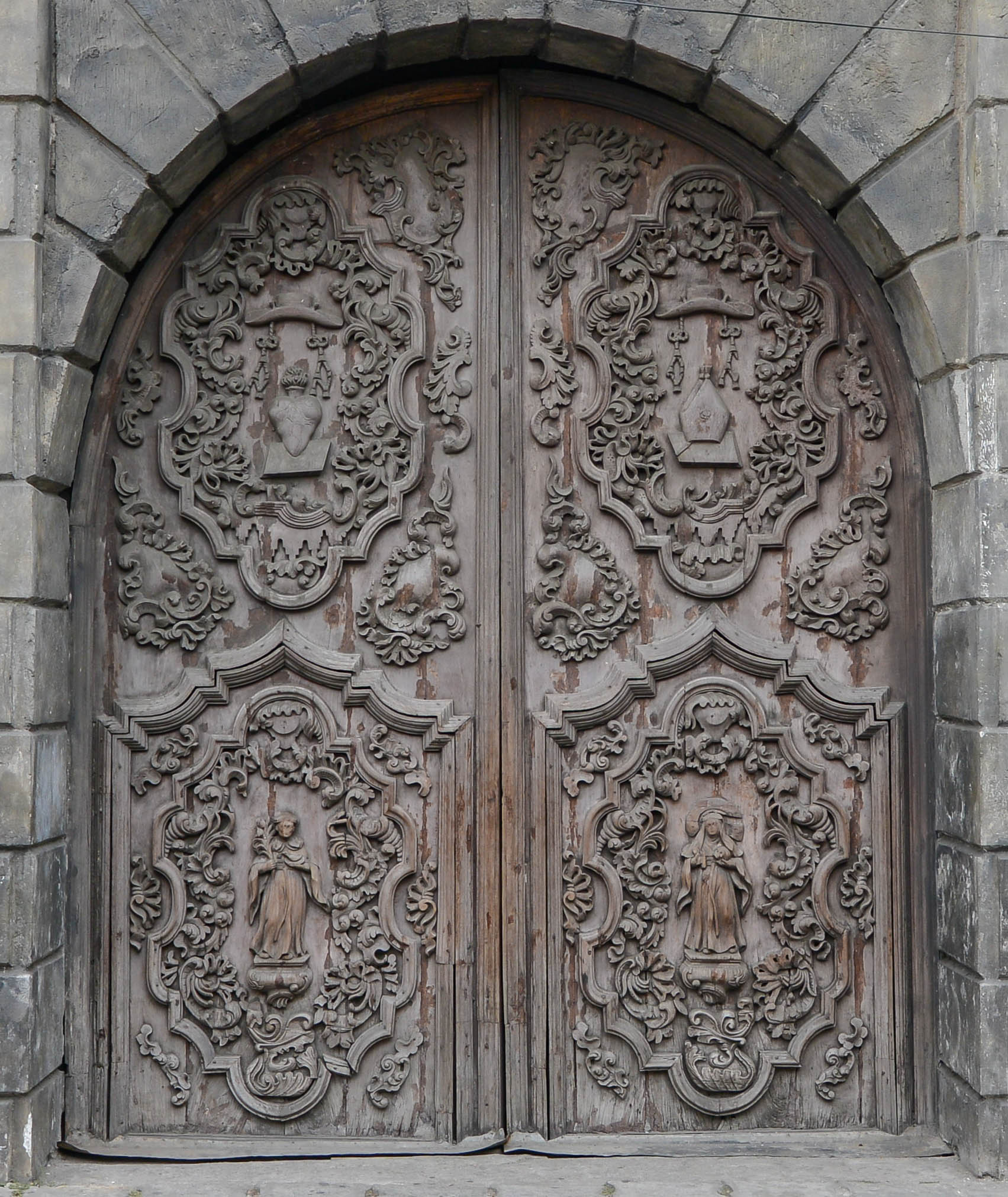 Elaborated carved wood door